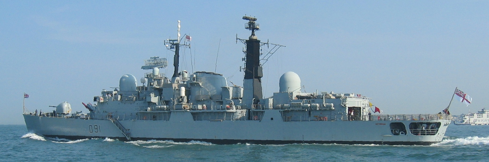 The Type 42 destroyer HMS Nottingham (D91)